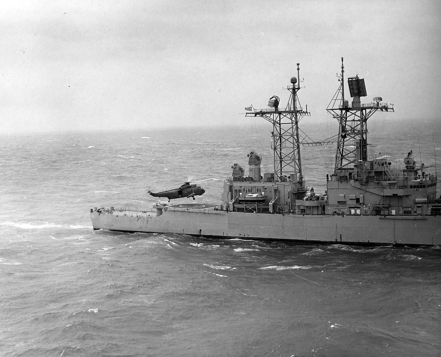 A U.S. Navy Sikorsky HH-3A Sea King of Helicopter Combat Support Squadron HC-7 Sea Devils landing on board the guided missile cruiser USS Truxtun (DLGN-35) operating in the Pacific.